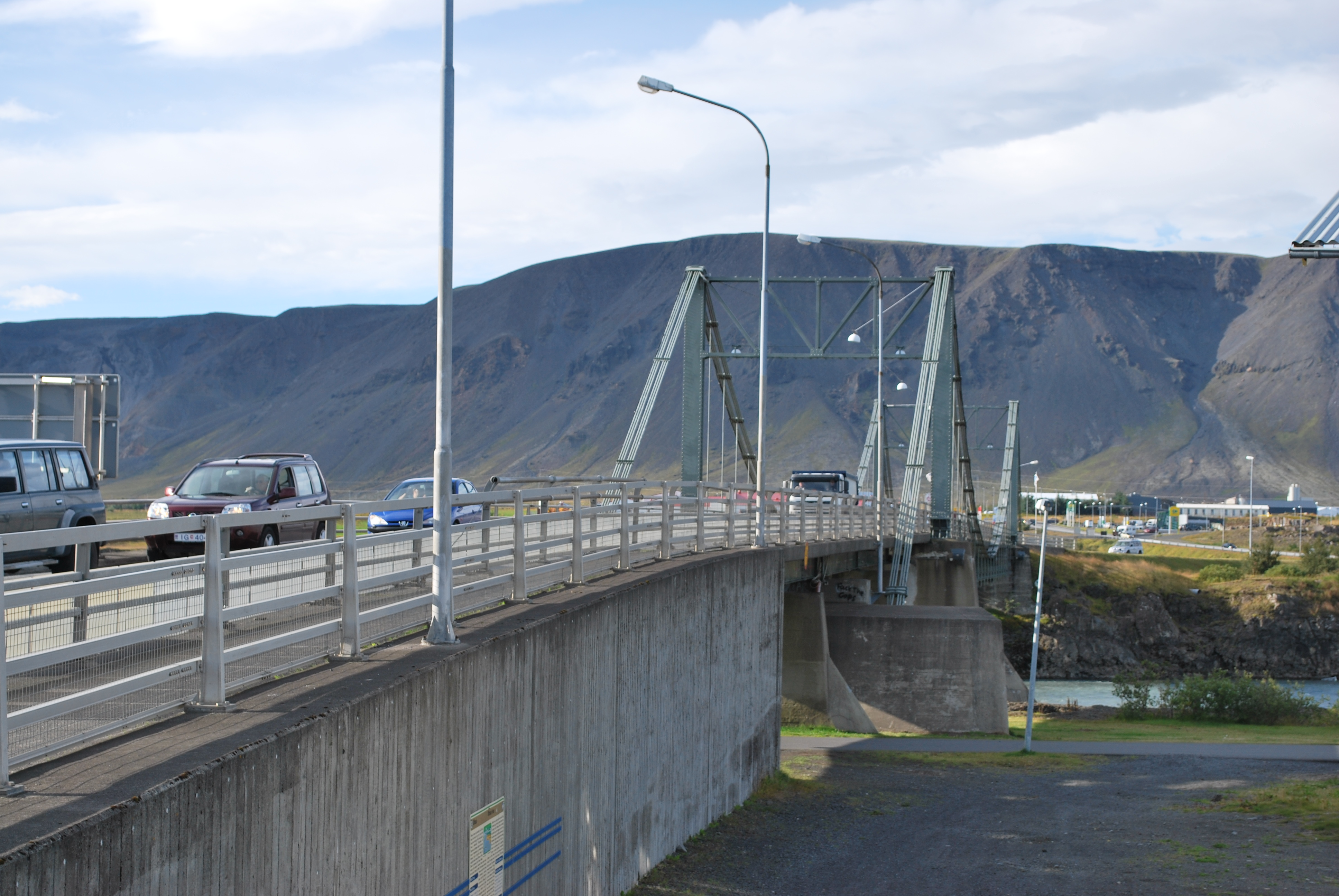 Ölfusárbrú bridge in Selfoss town, Iceland